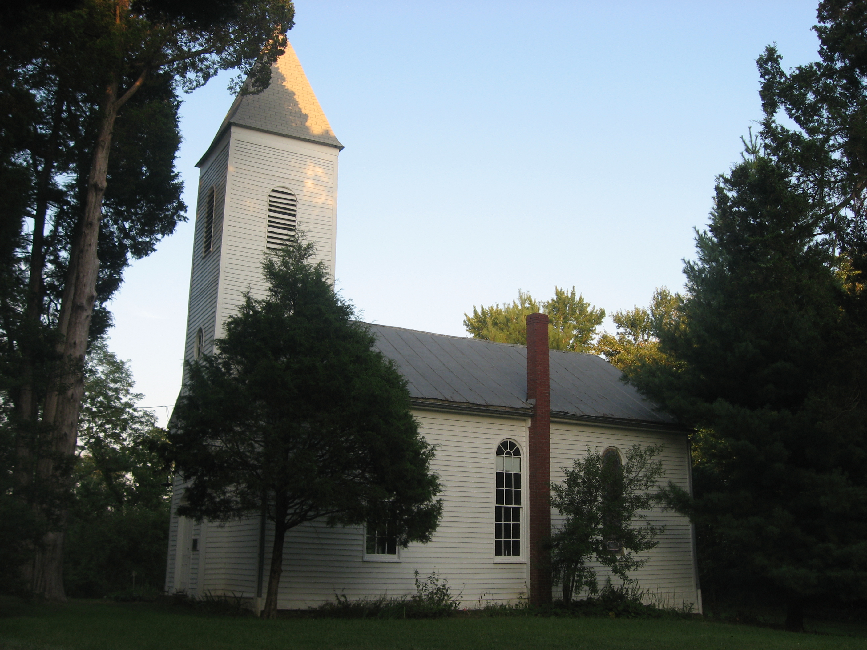 Front and western side of the former Deutsch Evangelische St. Paul's Kirche, located on County Road 1540N in Santa Claus, Indiana, United States. Built in 1880, it is listed on the National Register of Historic Places.